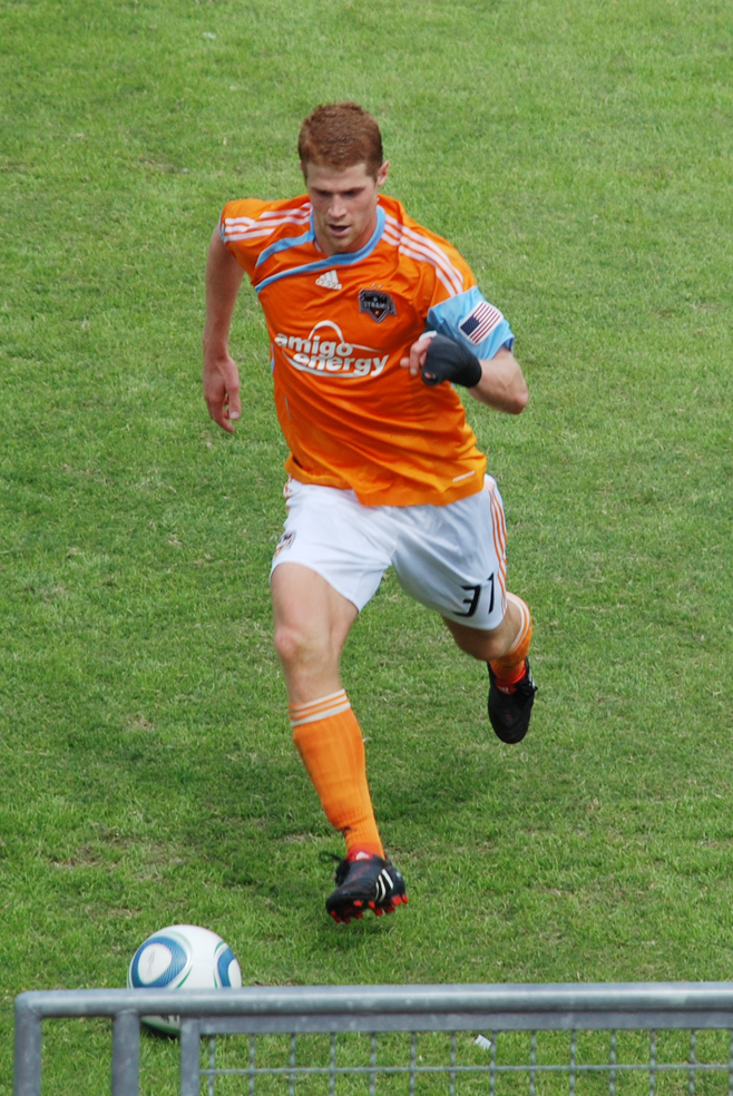 Houston v Chivas USA